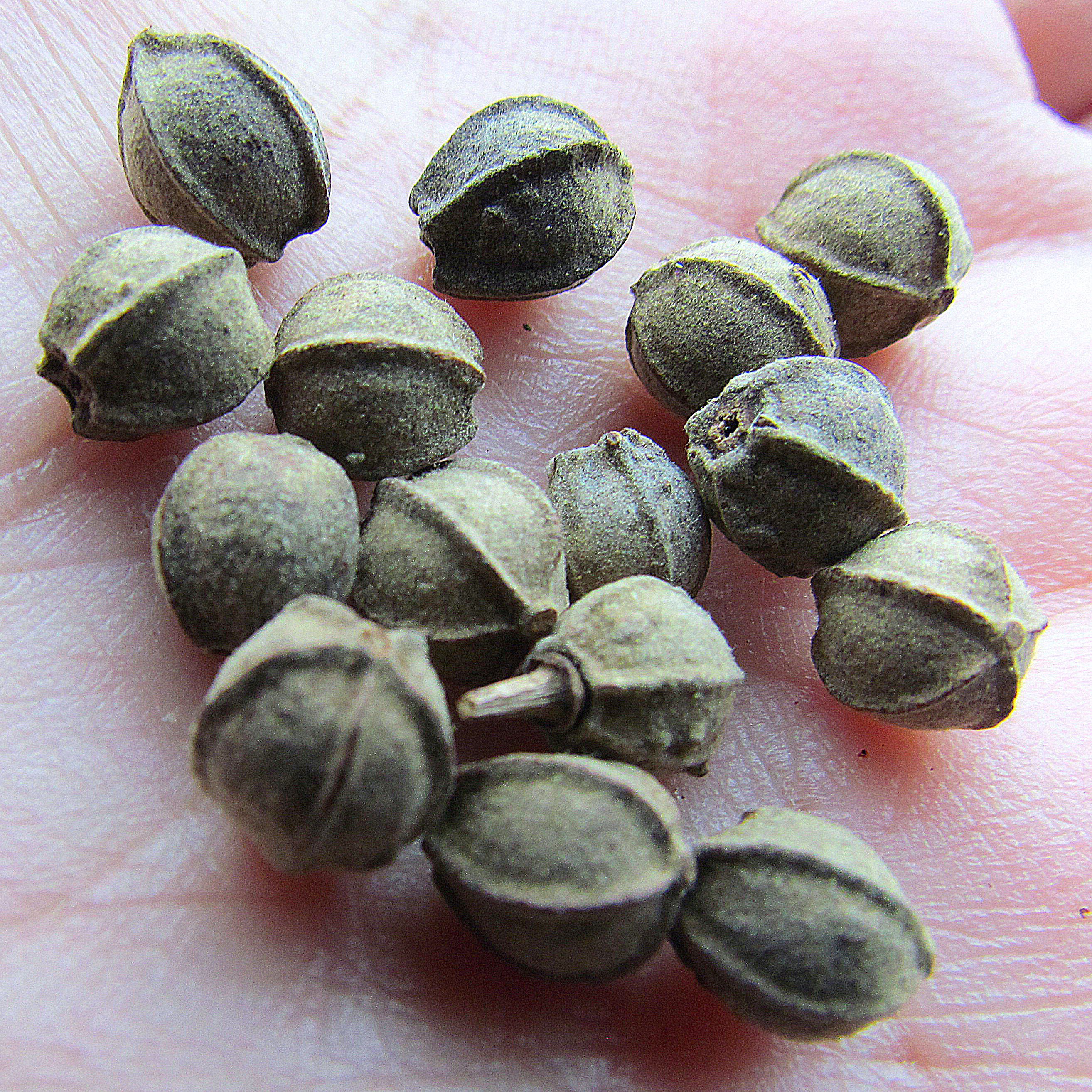 Tilia platyphyllos fruits